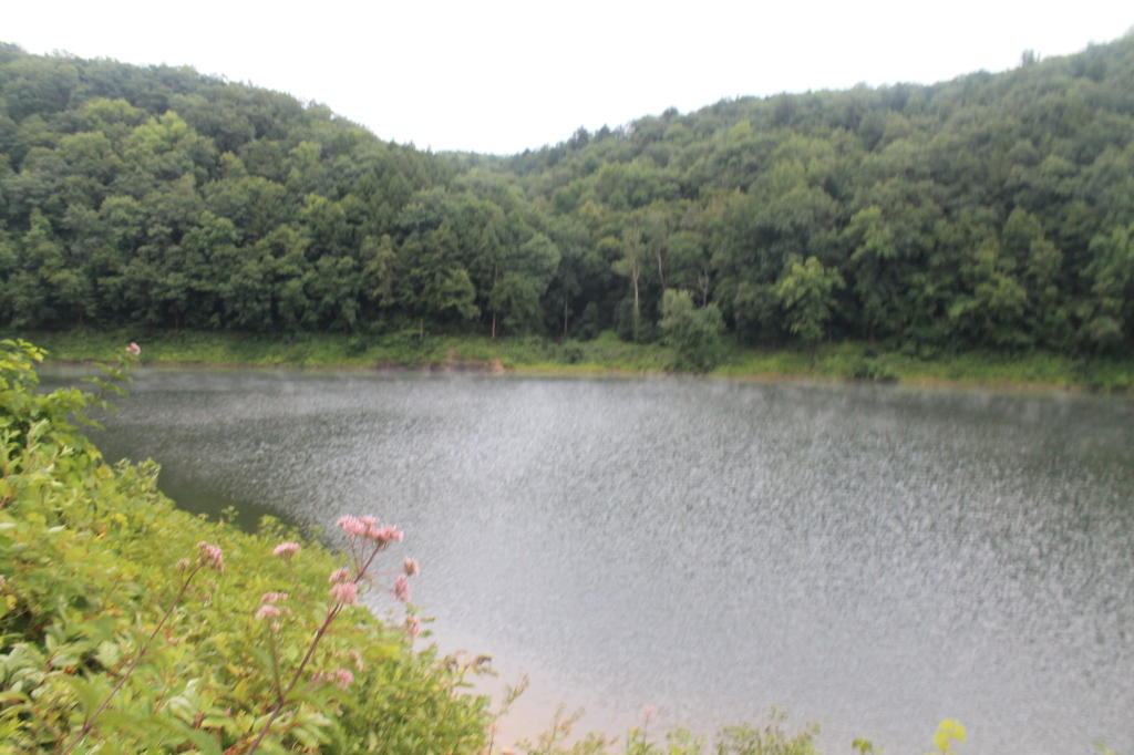 Overview of Tionesta Lake, formed by damming Tionesta Creek just above its confluence with the Allegheny River in Tionesta Township, Forest County, Pennsylvania, United States.